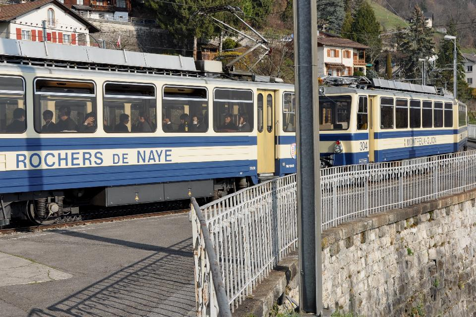 Rack railway double headed electric motor coach Bhe 4/8 301 Montreux and 304 La Tour-de-Peilz from the Transports Montreux–Vevey–Riviera (MVR), former Glion–Rochers-de-Naye railway (GN), with retrofitting automatic clutch for multiple unit traction at Glion.